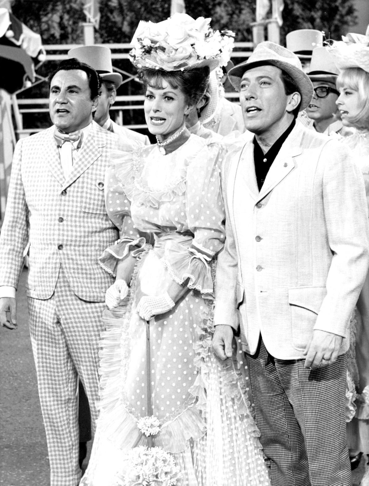 Photo of Bill Dana, Maureen O’Hara and Andy Williams from The Andy Williams Show.